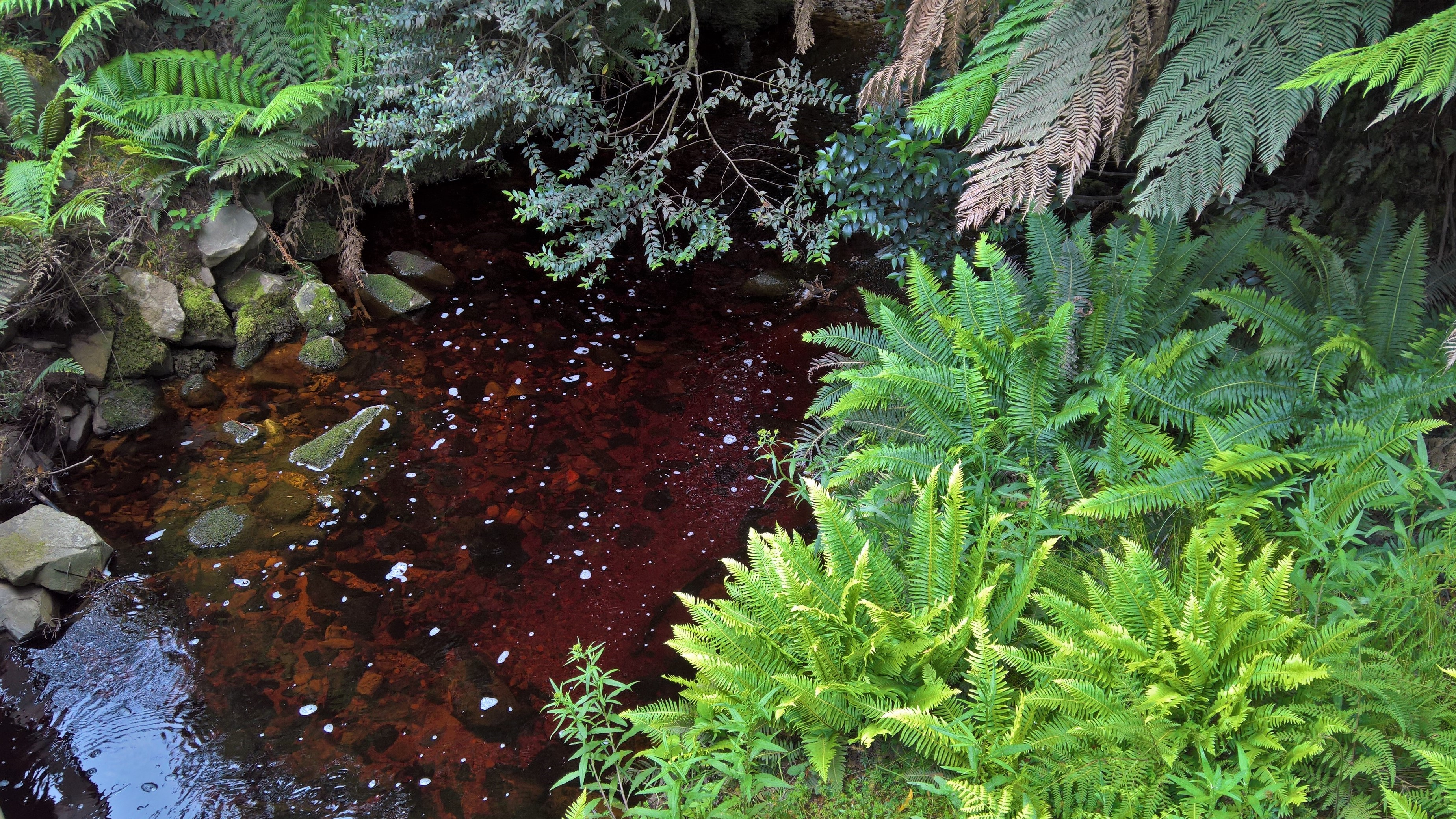 The tannin-rich stream produces a deep red/brown colour, taken from the edge of a small bridge. The weather at the time was overcast - on a sunny day, the red hue appears less intense.